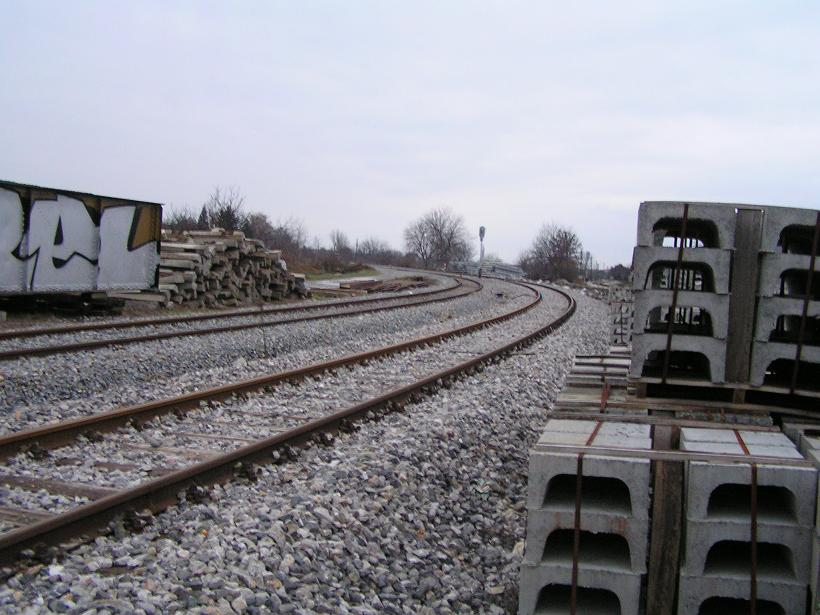 Railway line from Vinkovci to Osijek located in Croatia, junction exit from Osijek bound to Vinkovci